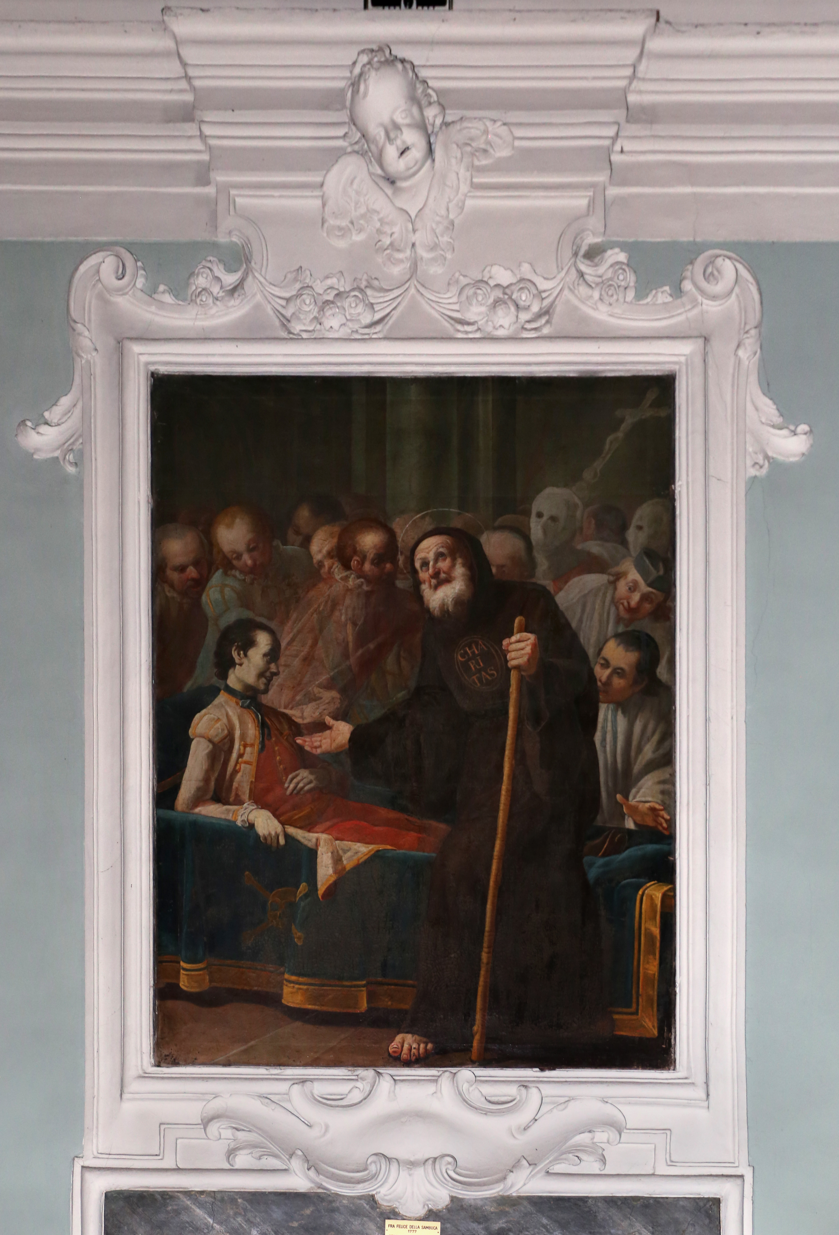 Santissimo Crocifisso (Borgo a Buggiano)